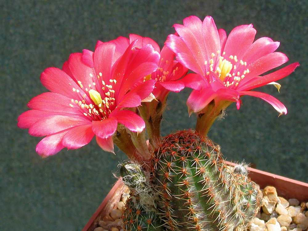 Rebutia colorea Ritter - cultivated plant from own collection.